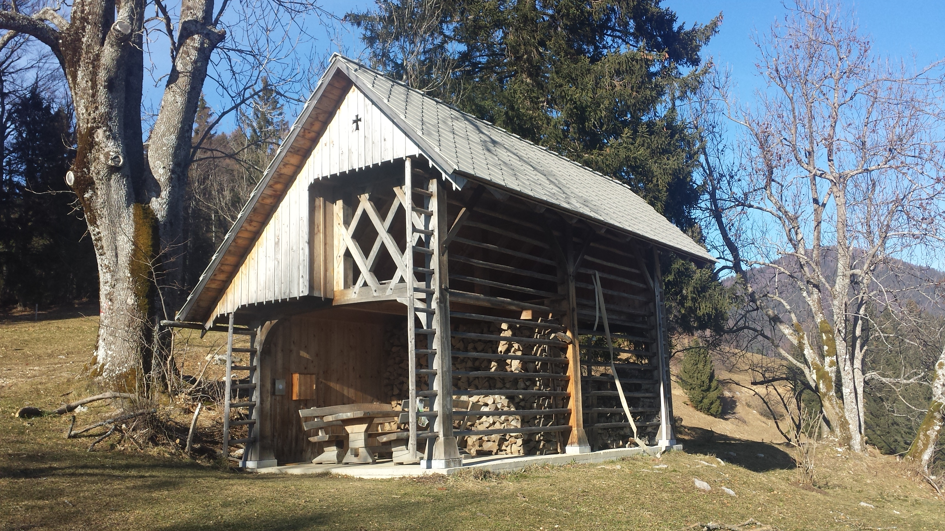 Malenski Vrh - Hayrack